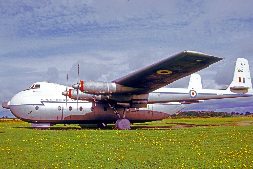 Armstrong Whitworth AW.660 Argosy C.1 XN847 of 70 Squadron RAF at Shawbury in 1971